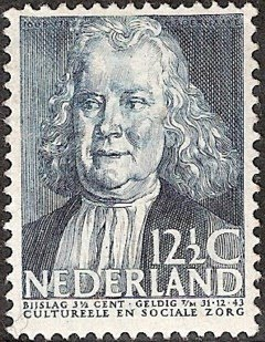 Herman Boerhaave (1668-1738) Summer stamps Nederlands 1938